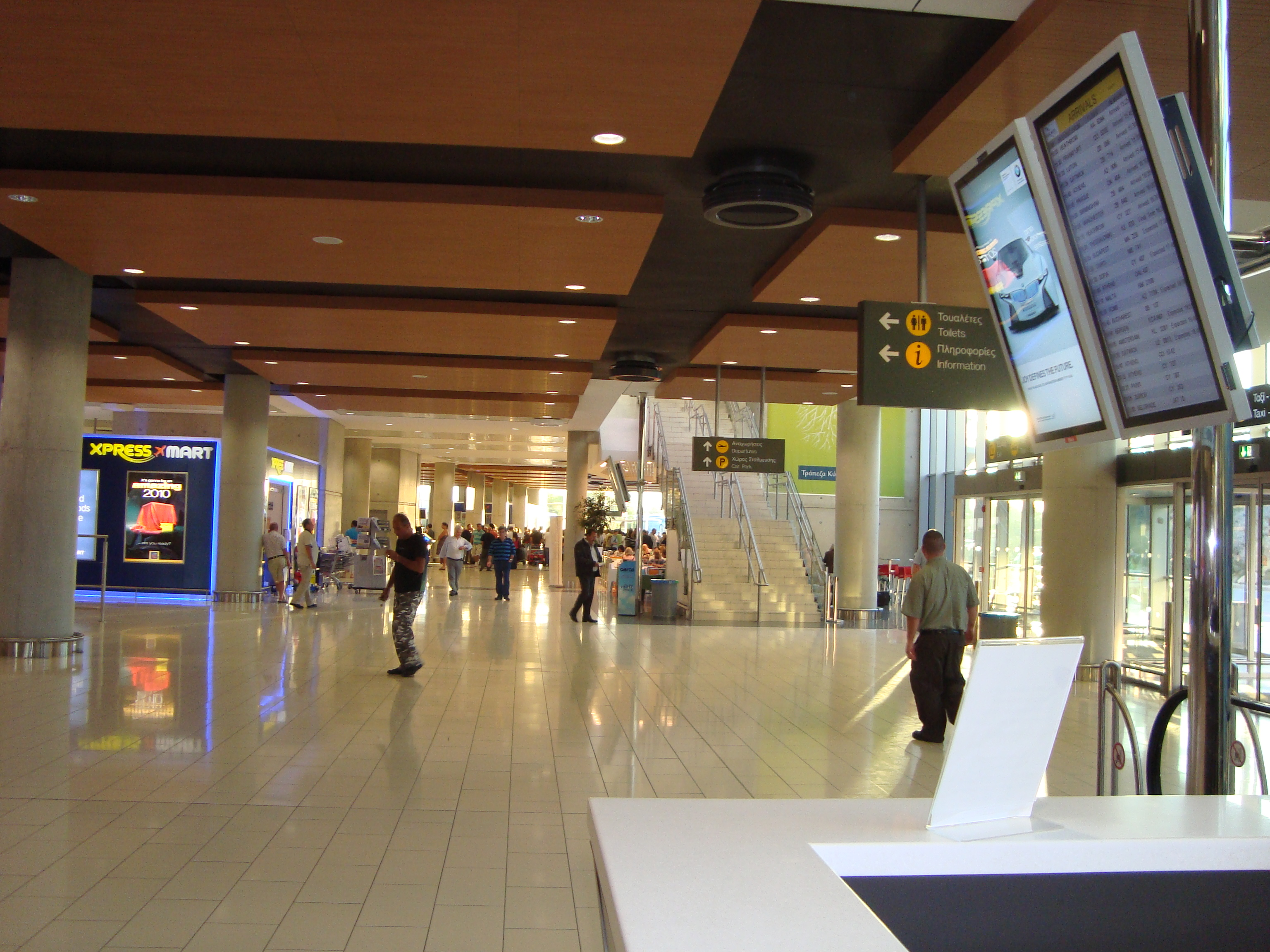 Cyprus Larnaca Airport passenger arrival room